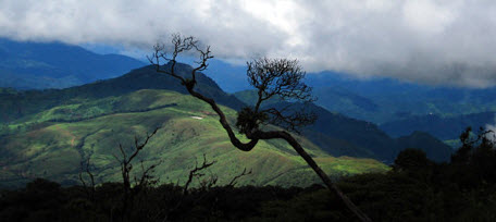 Lunghar Seihai Phangrei